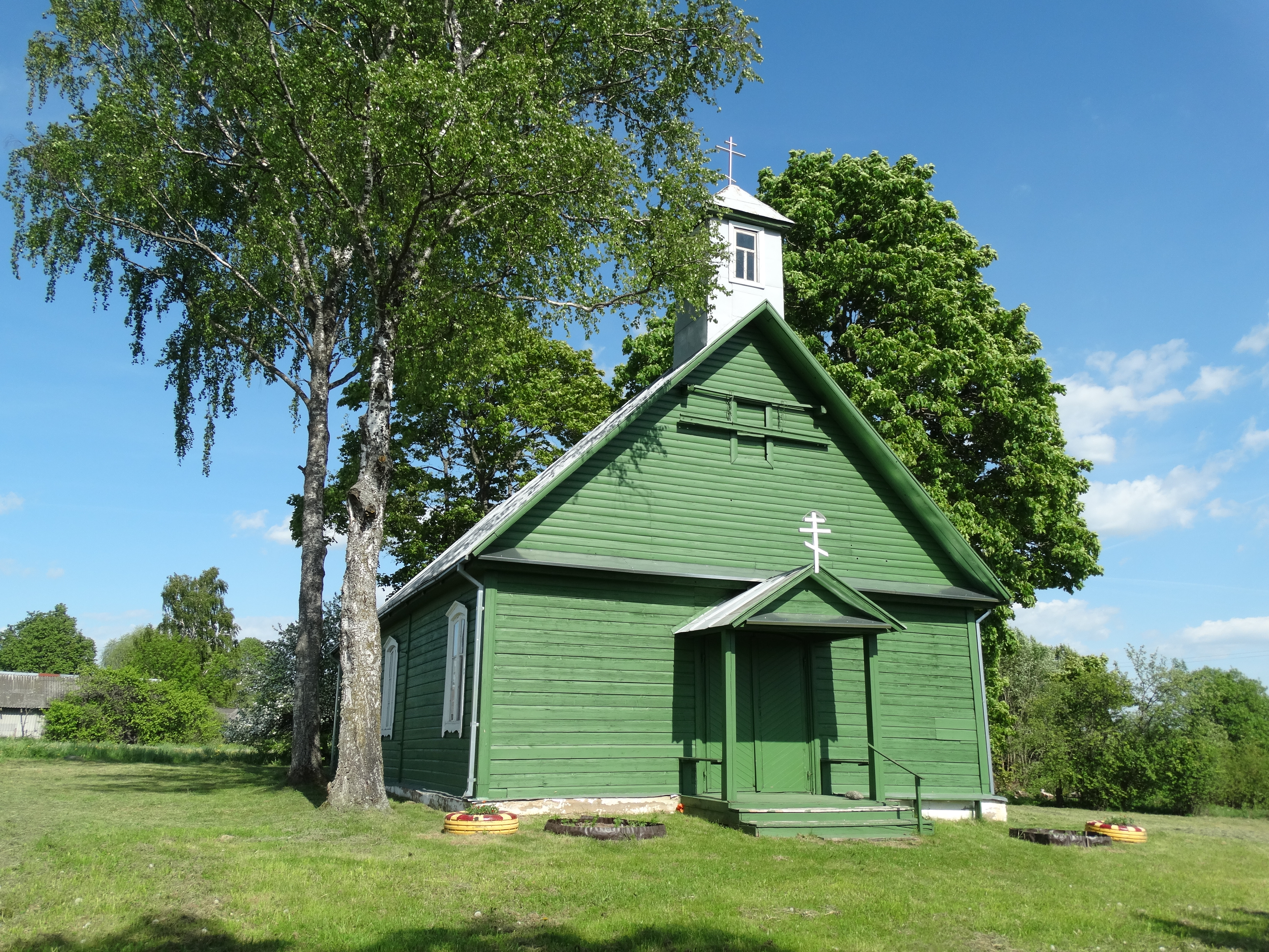 Church of Old Believers in Lukošiškė, Ignalina district, Lithuania